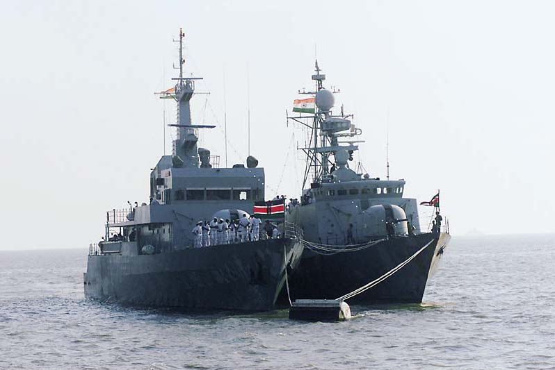 Kenyan Navy vessels KNS Shujaa and KNS Nyayo represent some of the 19 naval forces participating in India’s International Fleet Review.